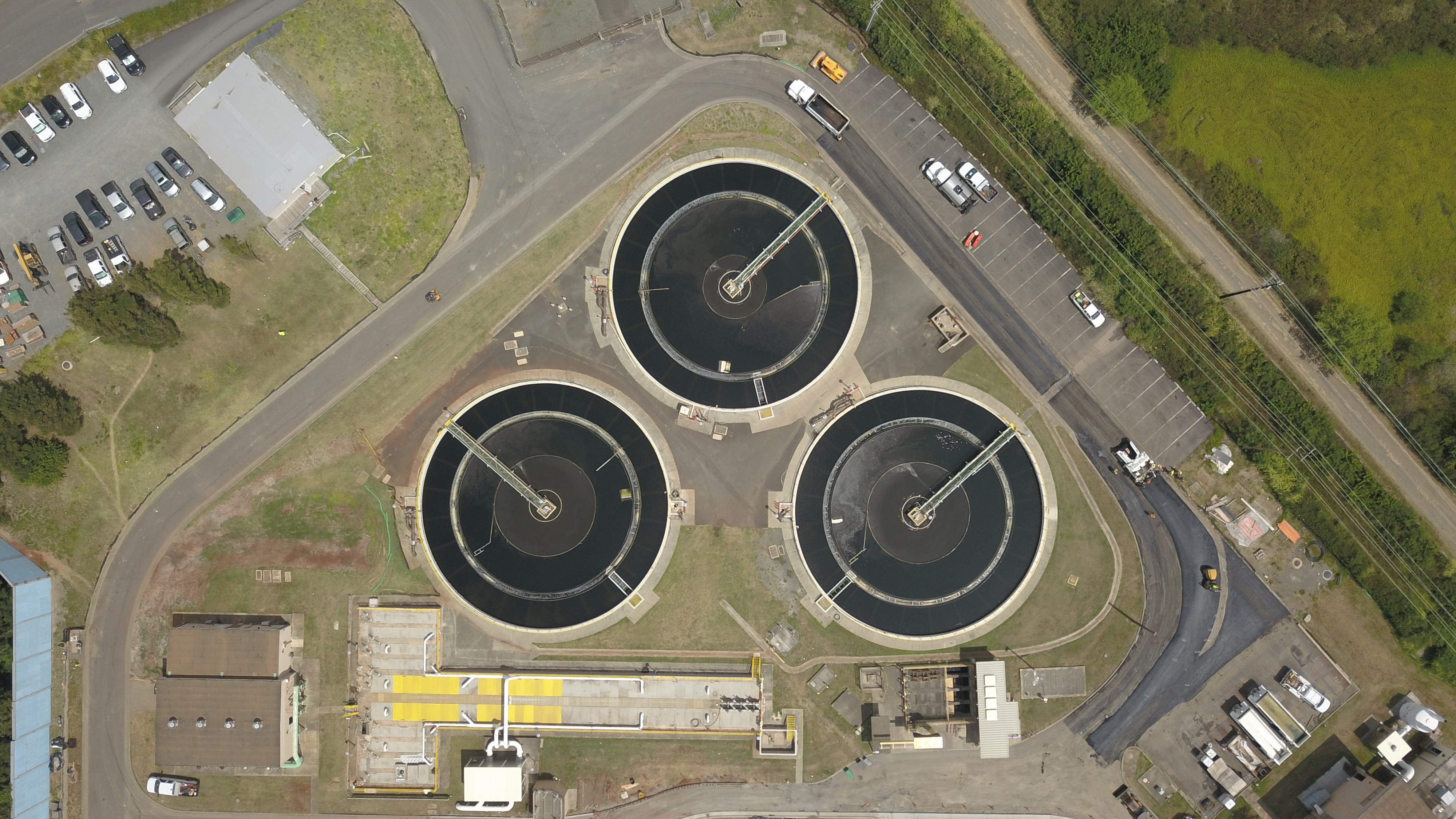 Three wastewater/sewage clarifiers at the Kailua Regional Wastewater Treatment Plant in Hawaii. The plant serves most of Kaneohe, Kailua, and MCBH. (Marine Corps Base Hawaii) This picture was taken near ʻAikahi community park with an unmanned aerial system / drone.